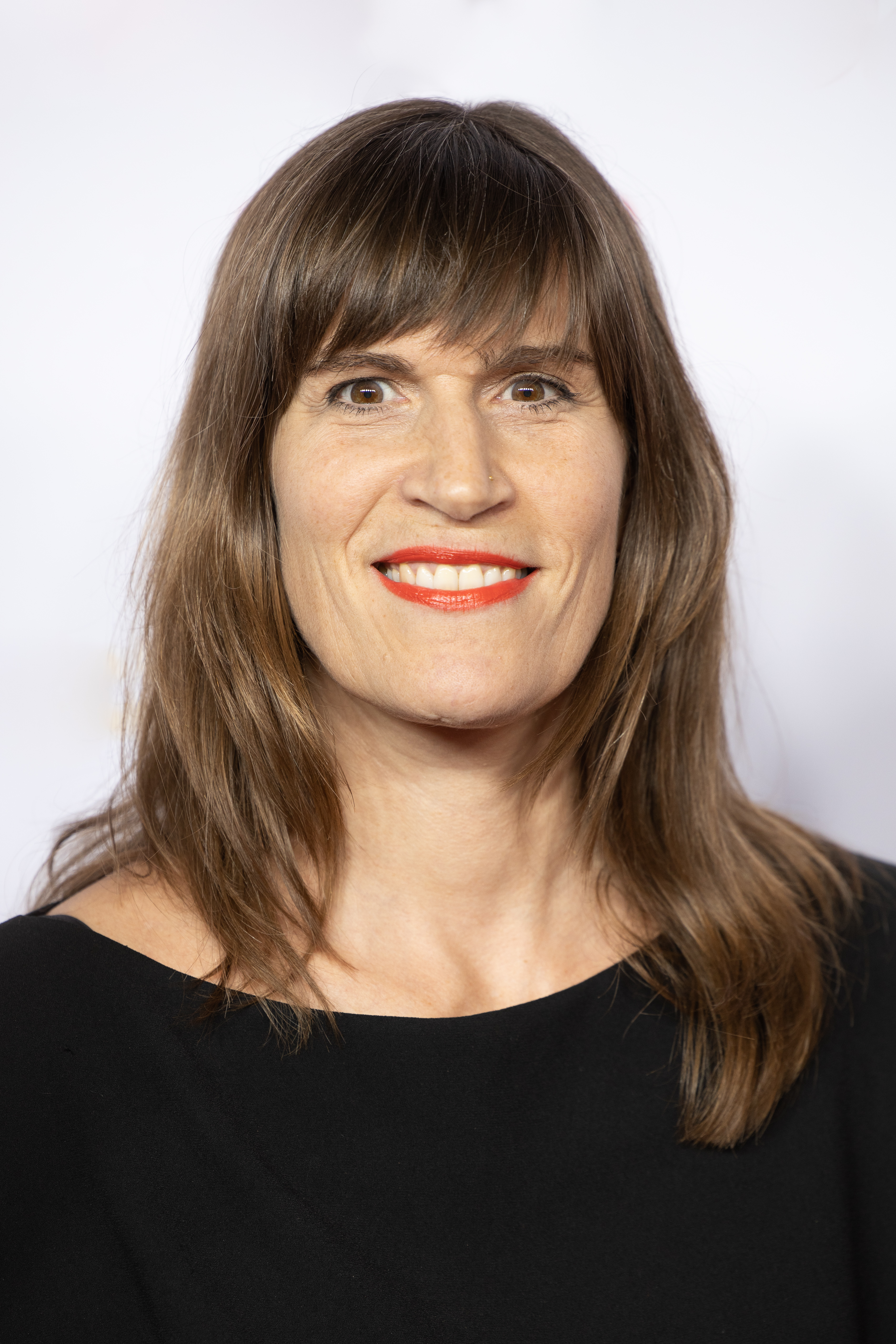 Claudia Rorarius at the Berlinale reception of the North Rhine-Westphalian state representation in Berlin, 2020